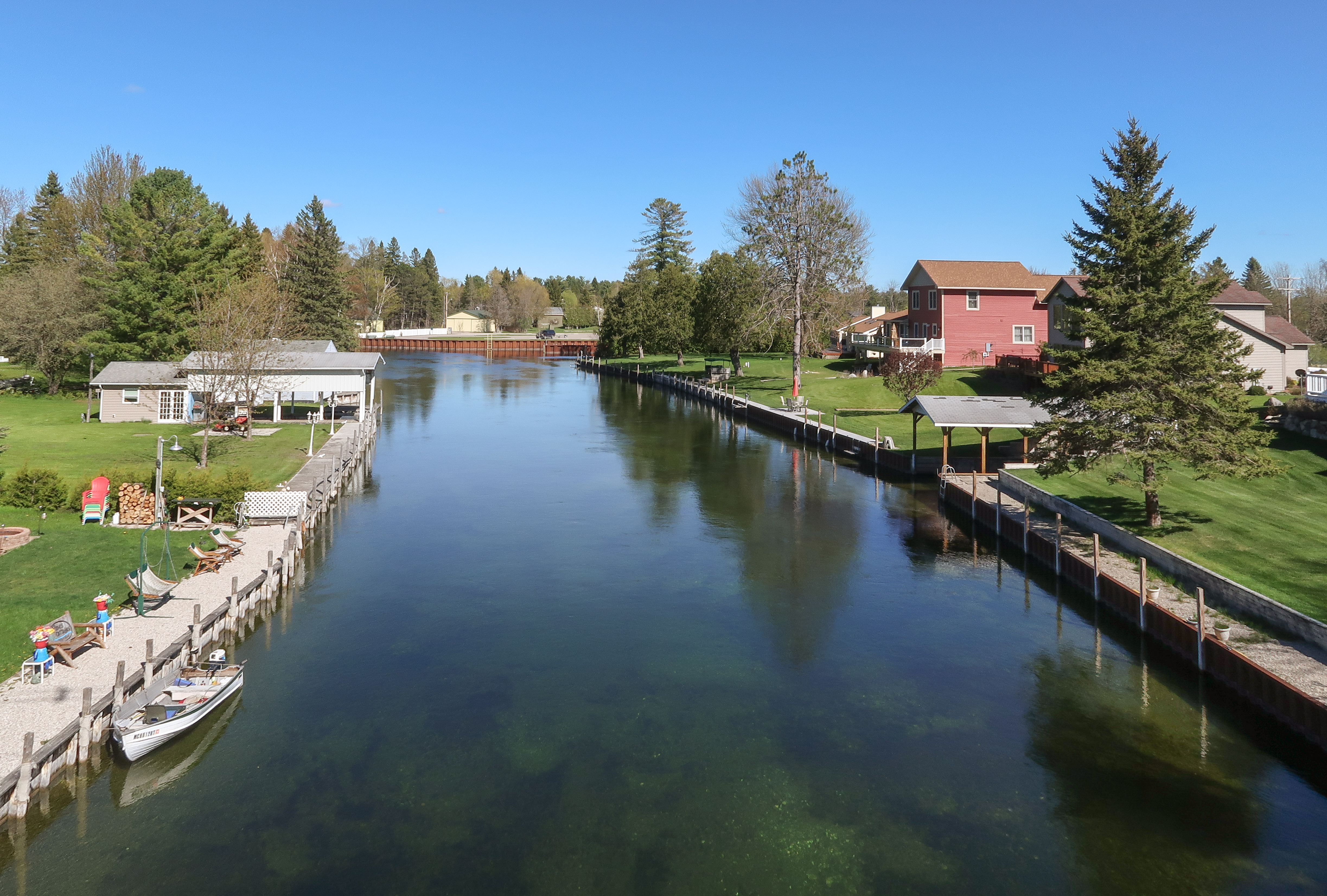 The Indian River as viewed from the North Central State Trail in Indian River, Michigan on May 14, 2017